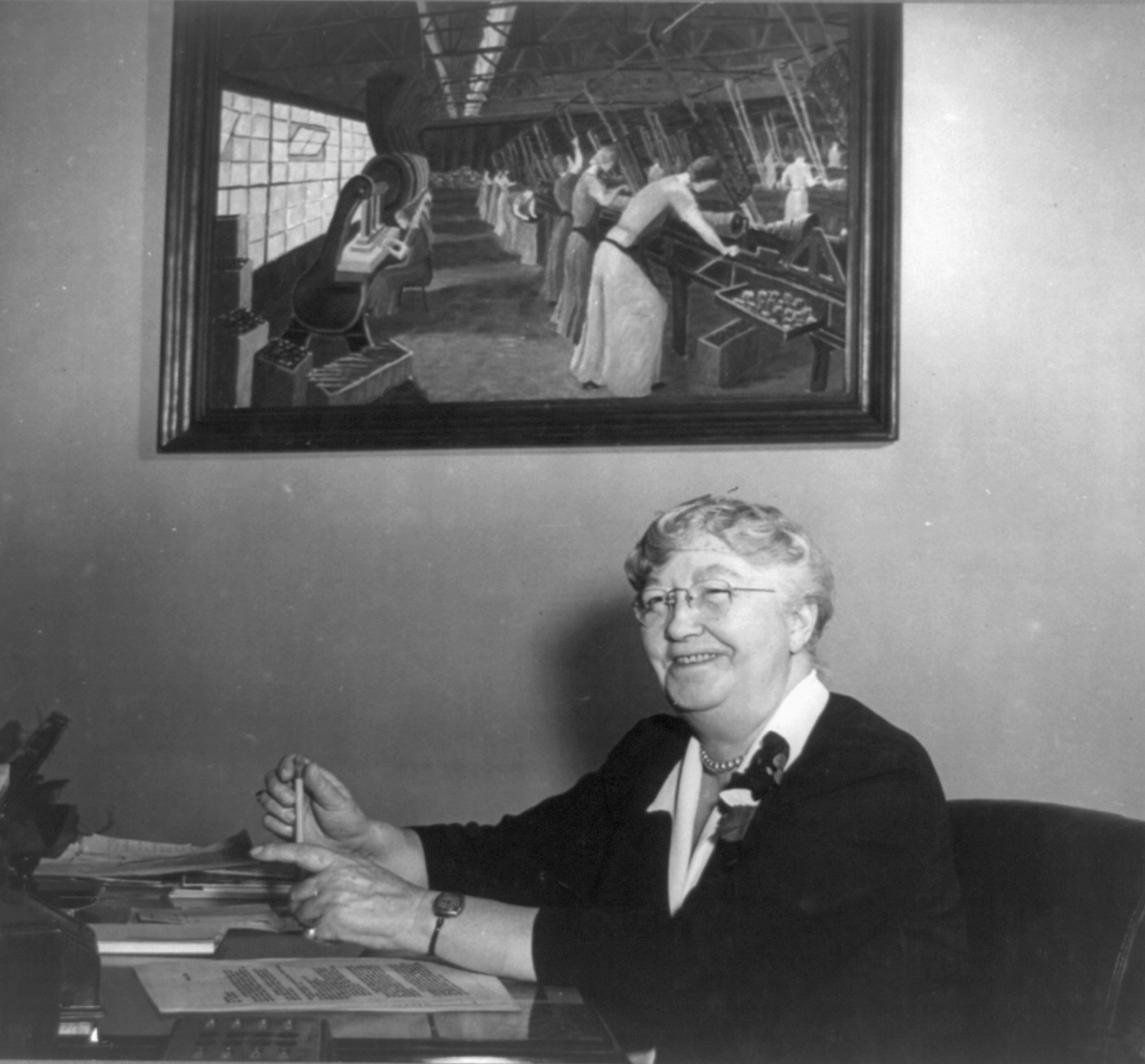 Half-length portrait, facing left.